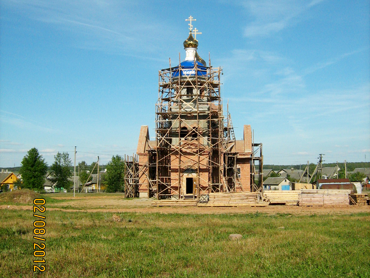 Church of the Intercession of the Holy Virgin (Vileyka)